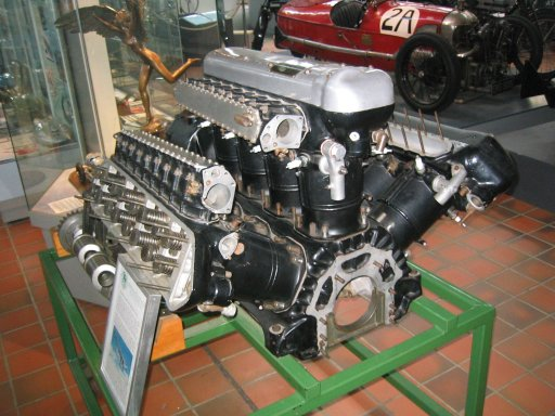 Napier Lion engine taken by User:PeterGrecian at Brooklands Museum May 8 en:2005.